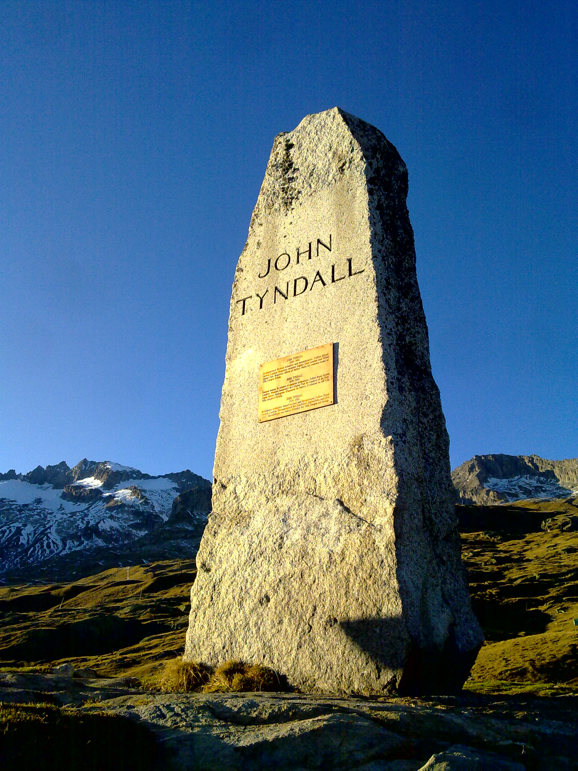 Tyndall memorial (Tyndalldenkmal), above Belalp at 2,340 metres (Valais)